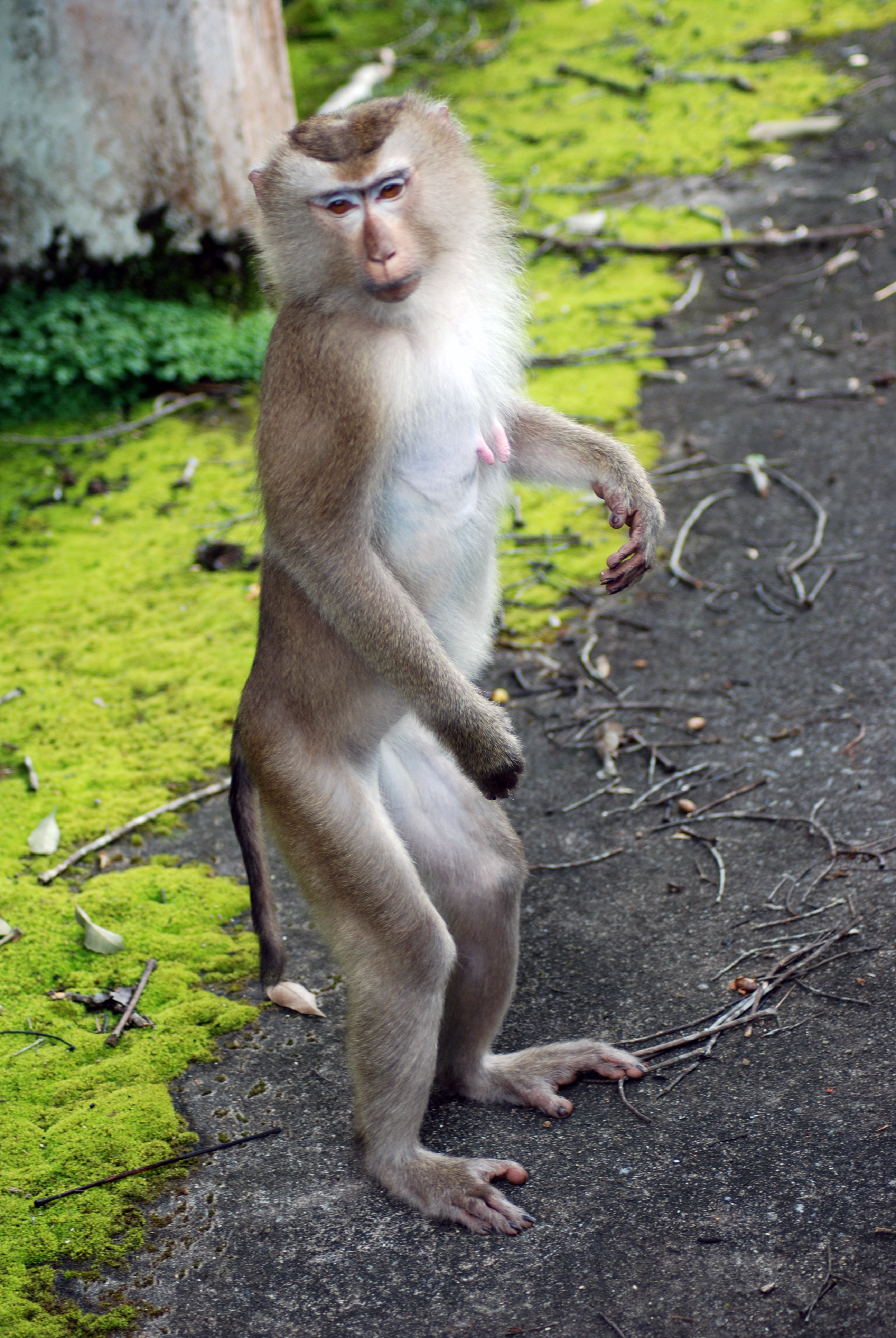 A northern pig-tailed macaque (Macaca leonina) in Khao Yai National Park, Thailand.